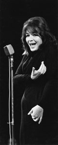 Juliette Gréco